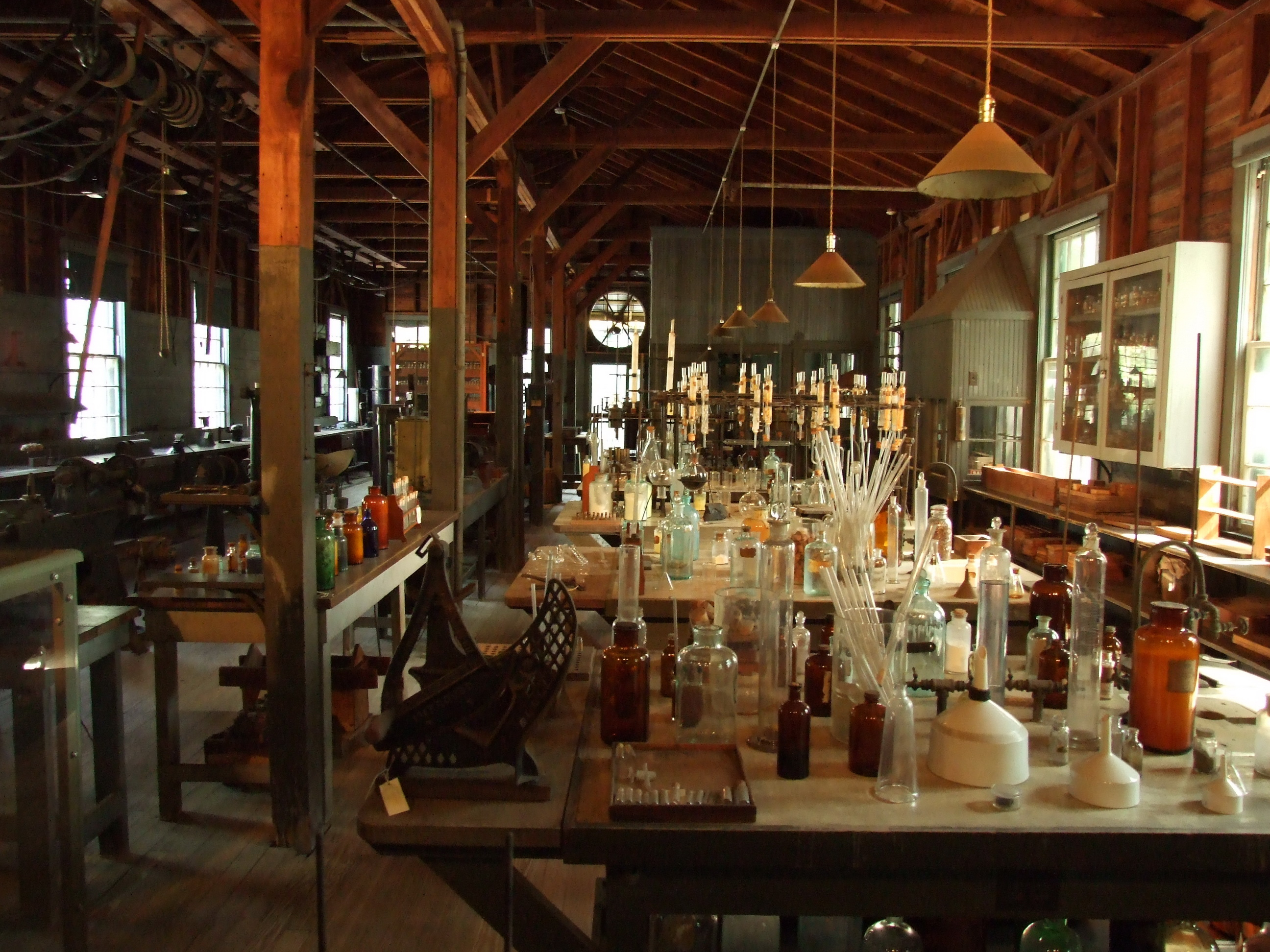 Thomas Edison's laboratory at Edison and Ford Winter Estates